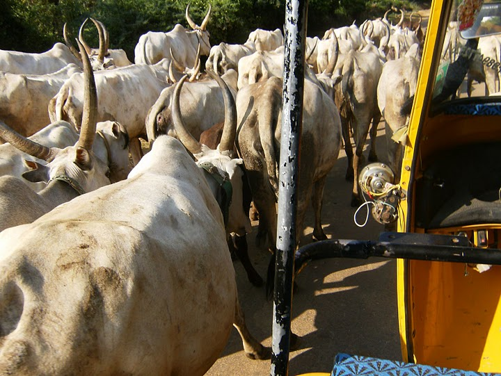 On the way to athi koil from the mandapam on the foothills of marakaa puchi mottai